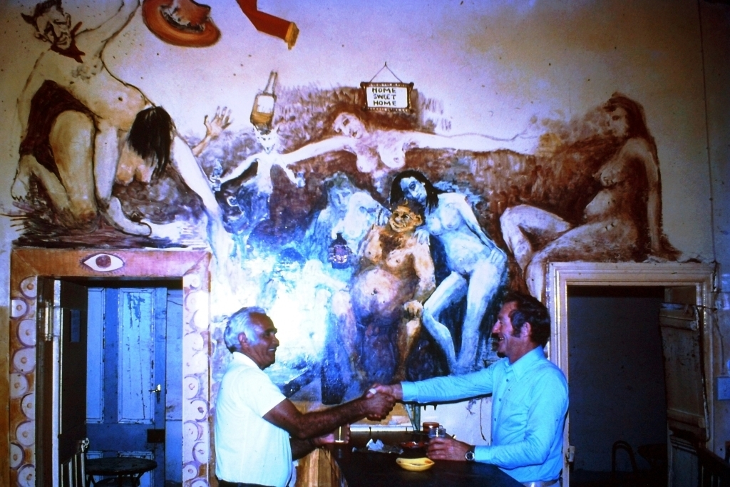 i took this photo myself in Tiboburra on a trip through far western N.S.W. in 1976